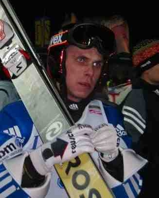 FIS Ski Jumping World Cup in Zakopane, 2003 Valery Kobelev